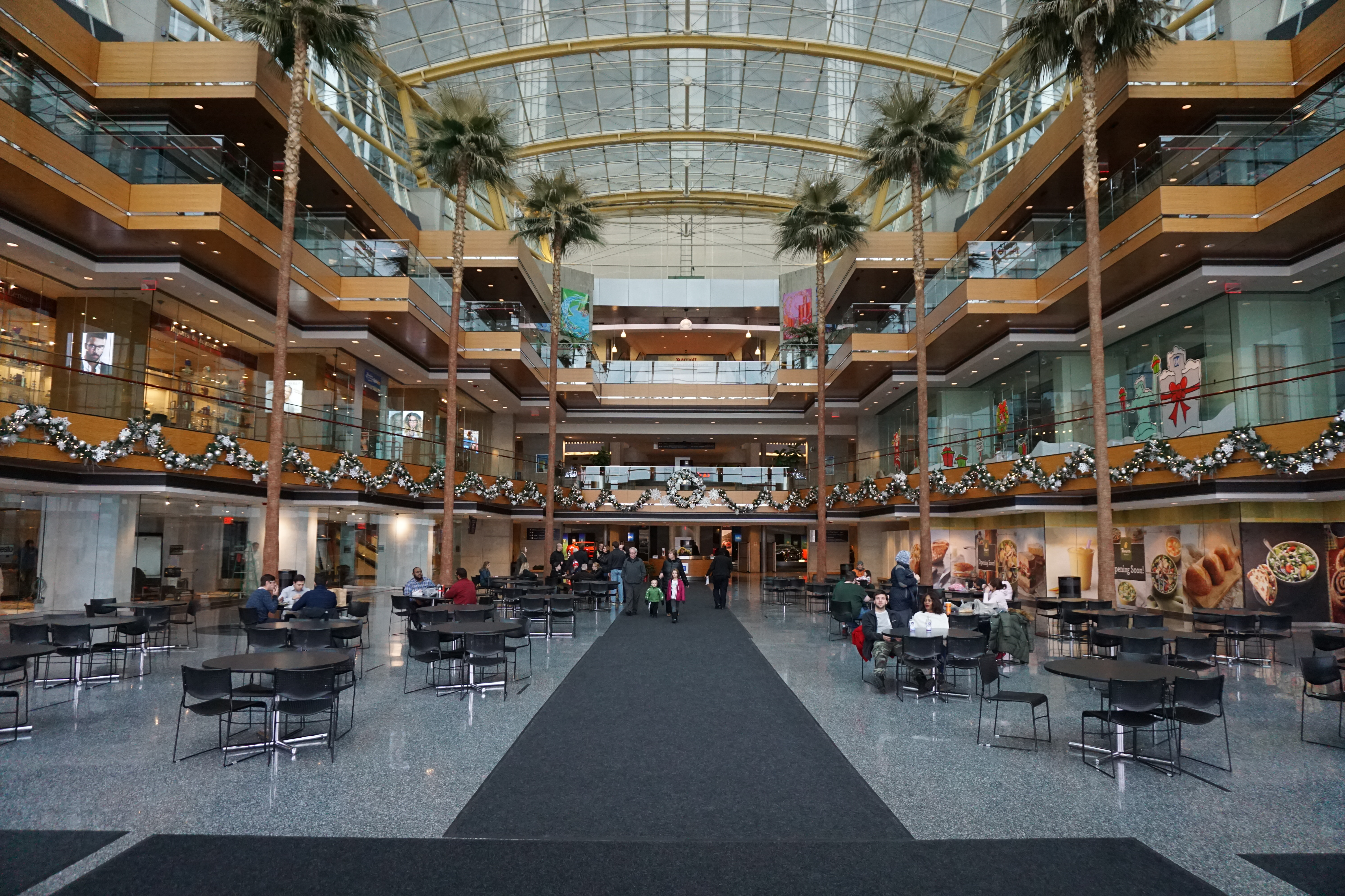 The interior of the Renaissance Center in Detroit, Michigan (United States).